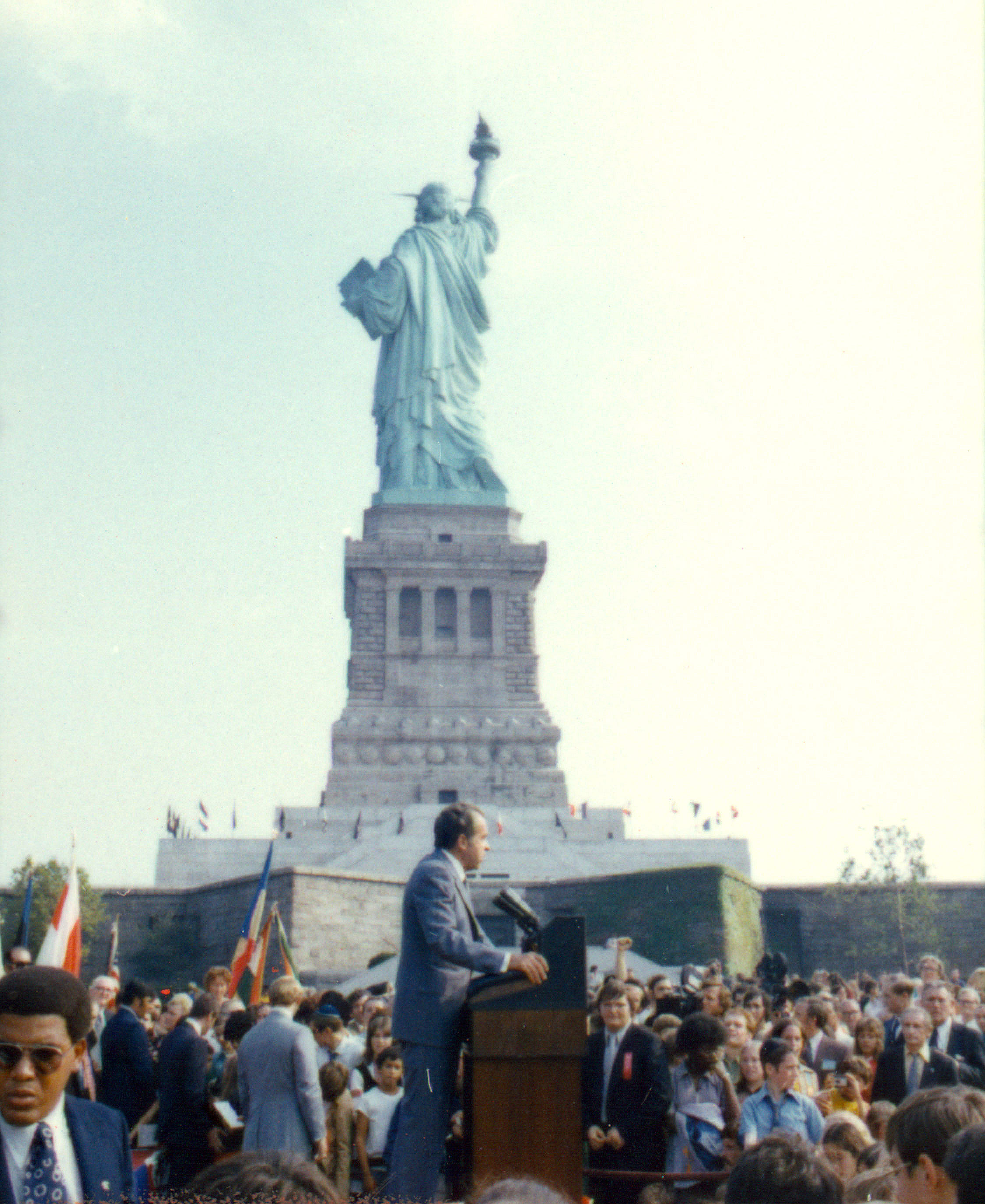 D0551-10A President Nixon speaking at Liberty Island - September 26, 1972 Photographer: Jack Kightlinger of the White House Photo Office